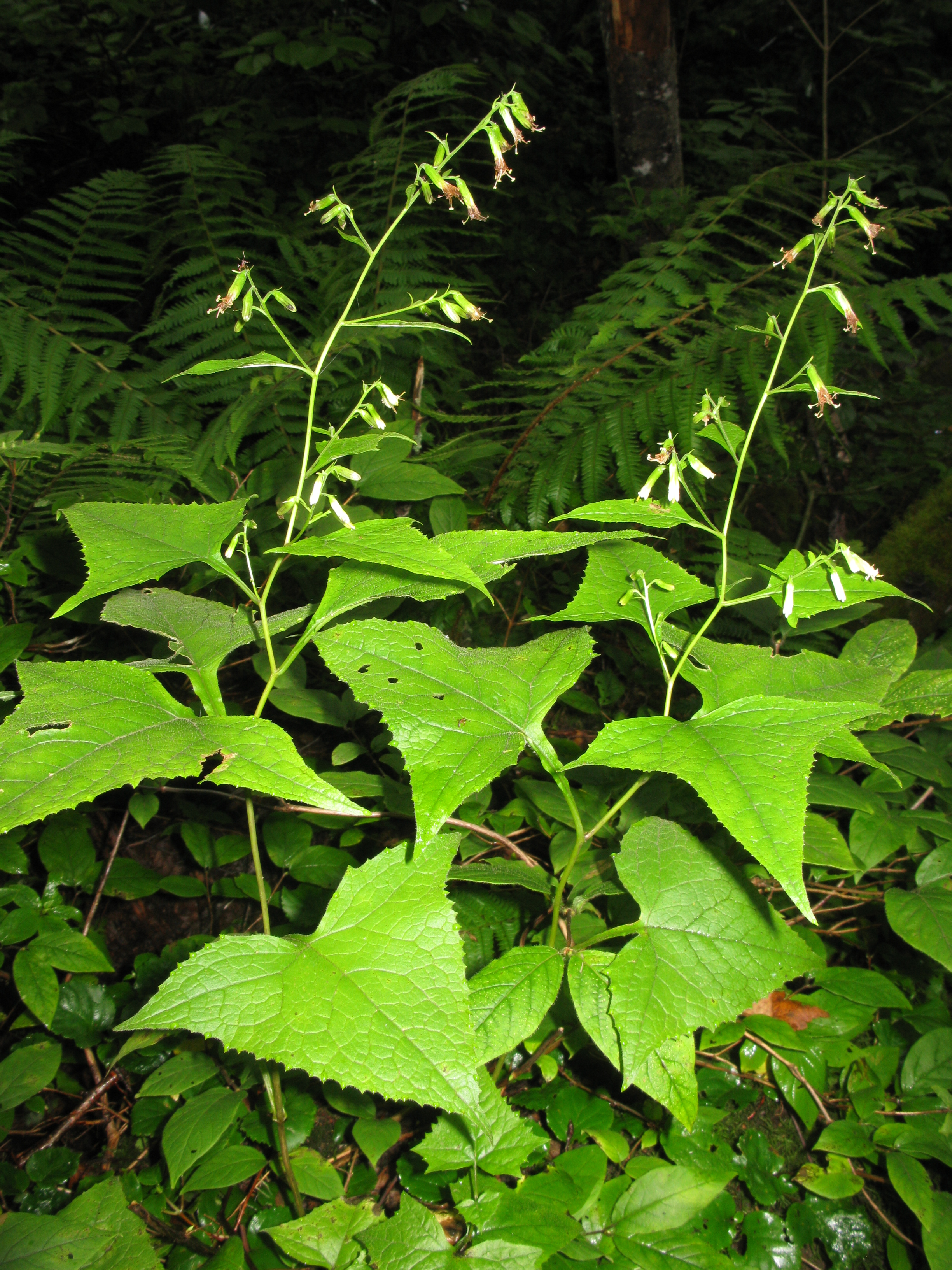 Parasenecio hayachinensis, Mount Hayatine-san, Iwate pref., Japan